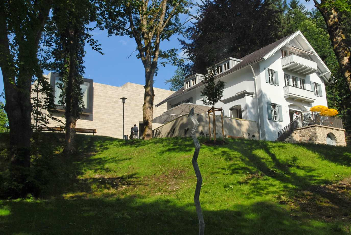 Franz Marc Museum